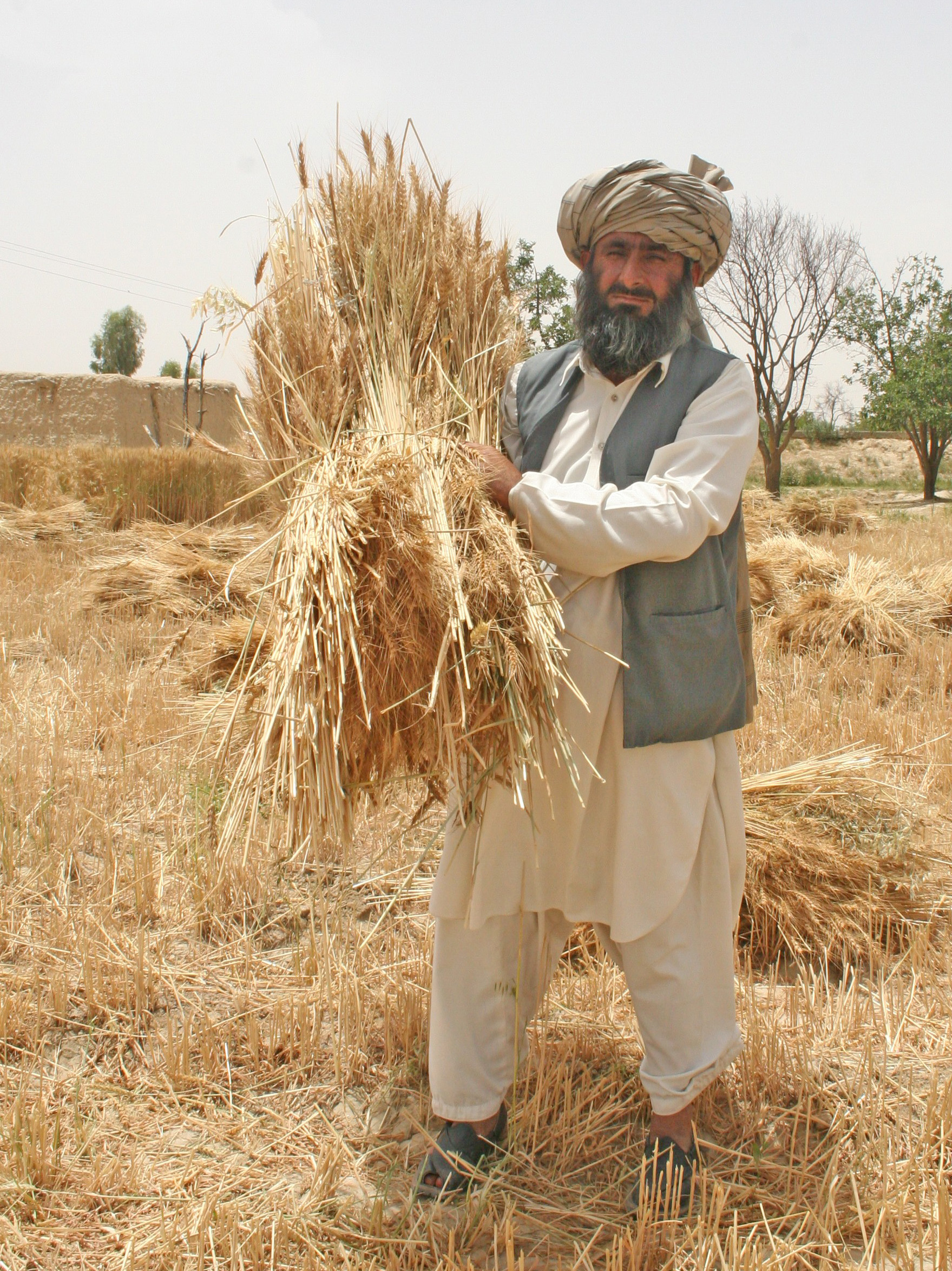 Abdul Khaliq, a farmer from Mahool Baloch village in Loralai District, gathers part of his abundant harvest from drought-tolerant wheat.